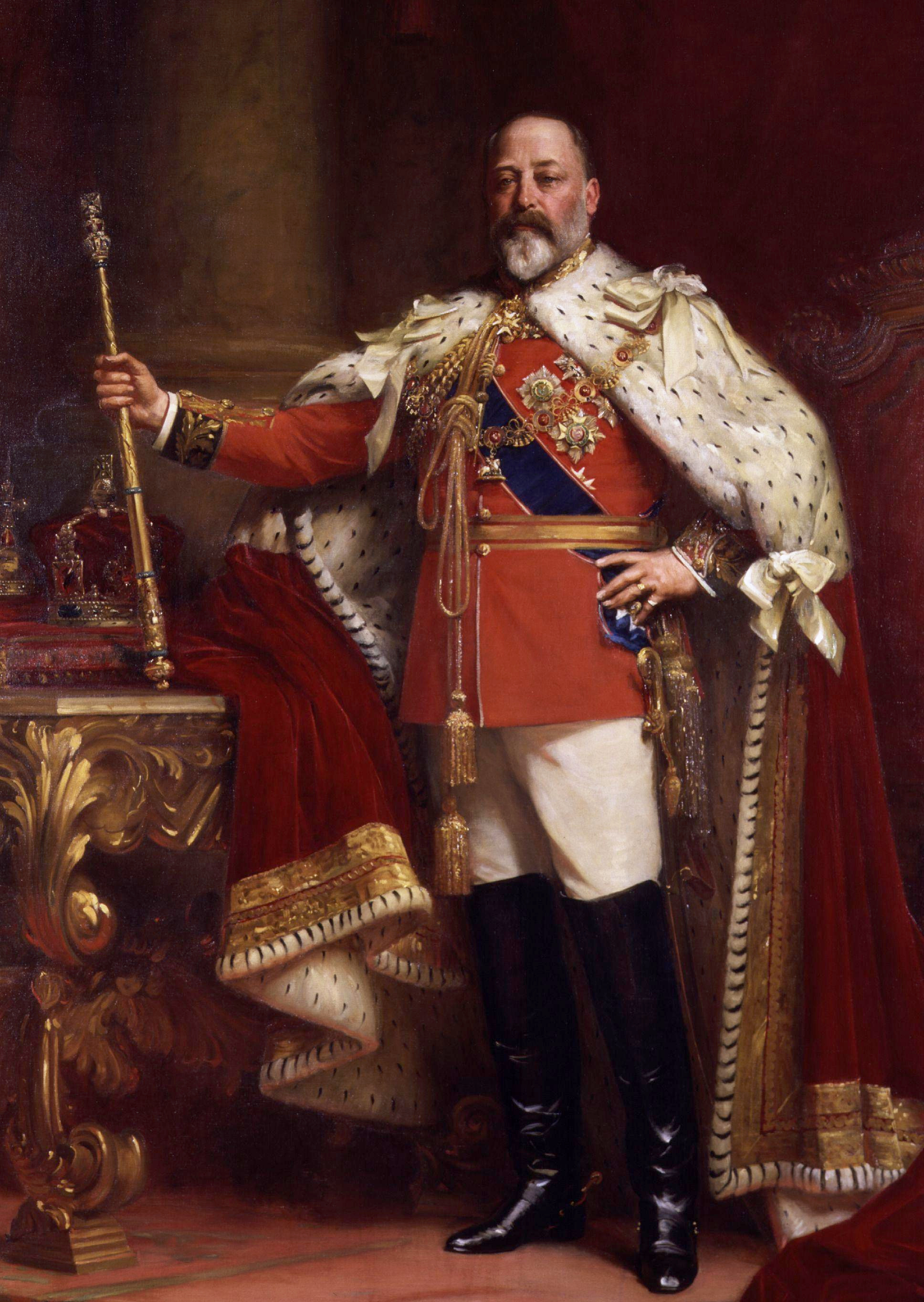 Portrait of King Edward VII (1841-1910)